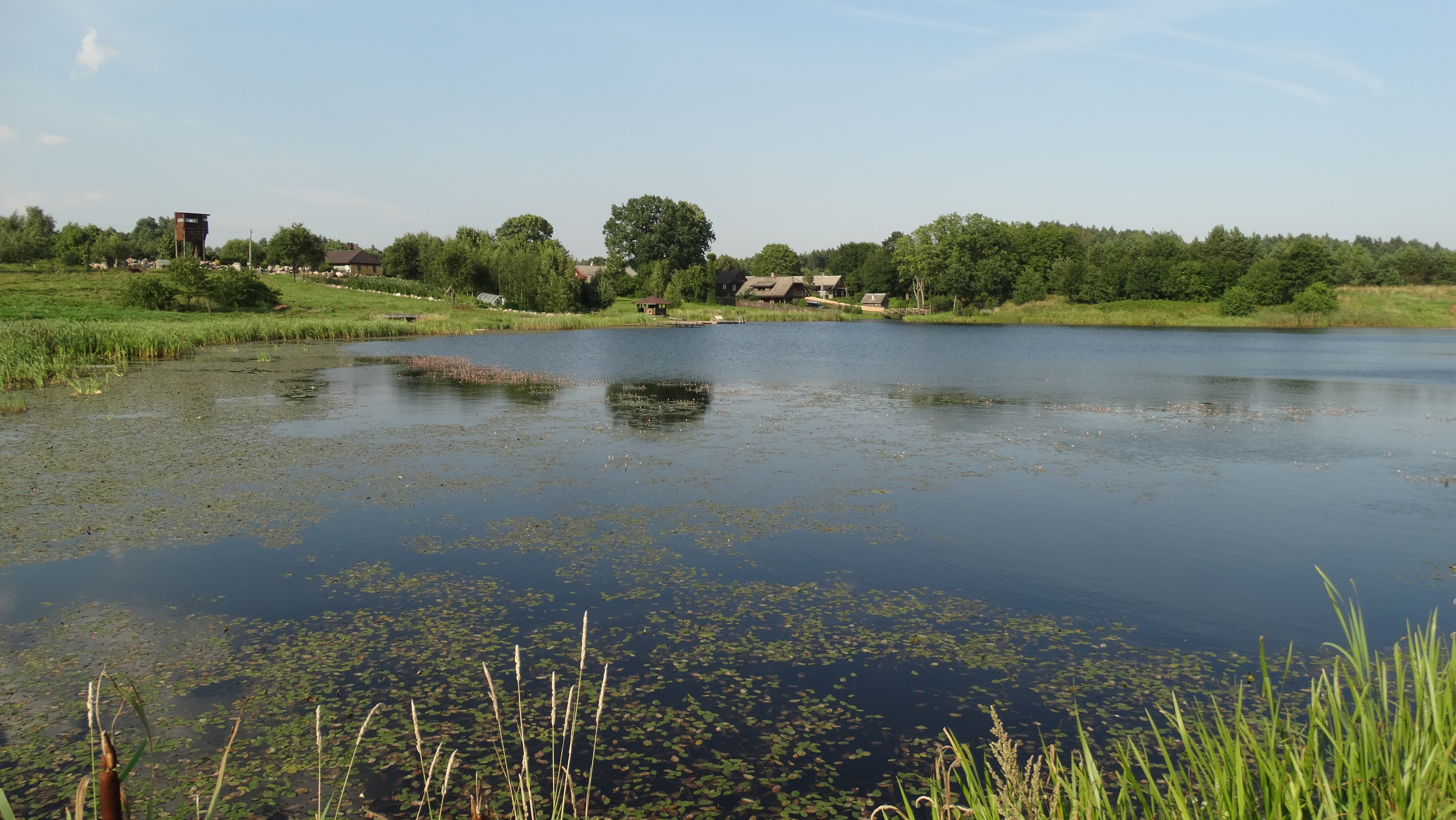 Gojinis Lake by Dvarčiškiai, Švenčionys District, Lithuania